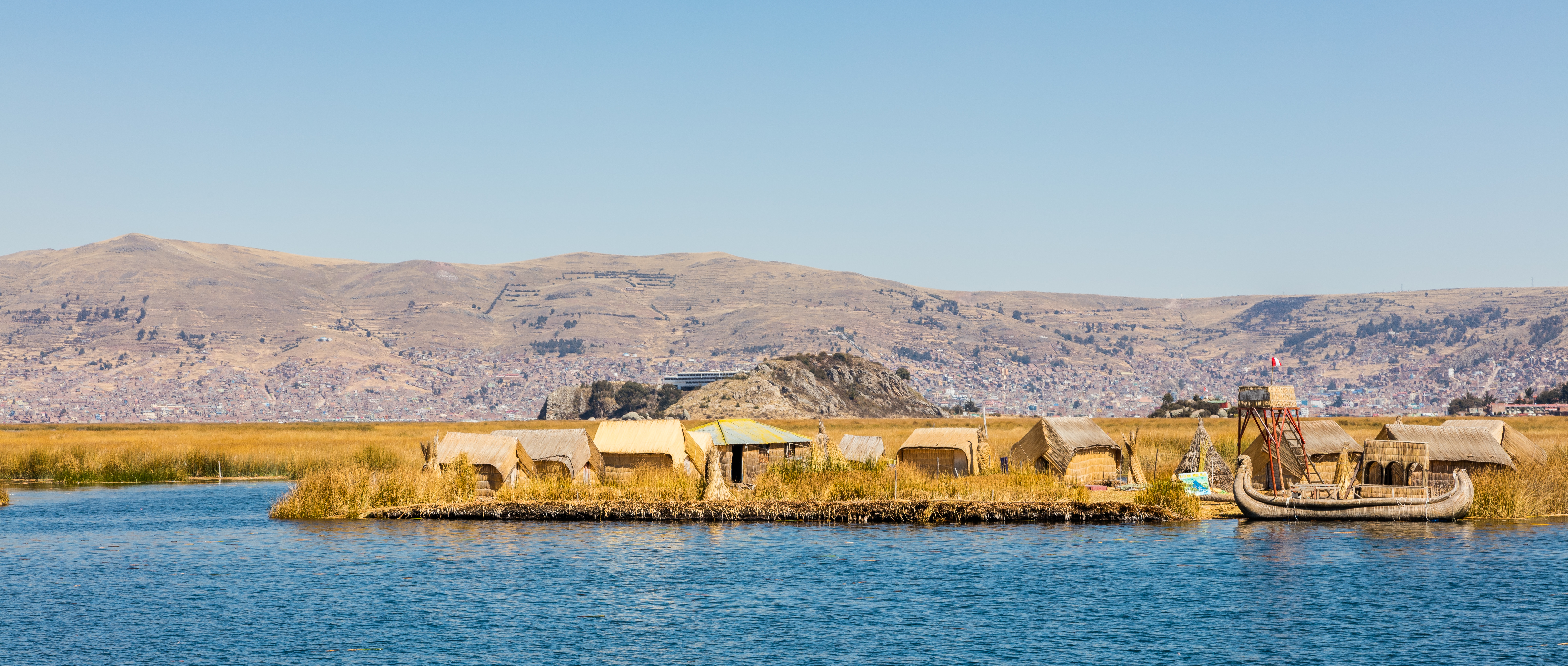 Uros floating islands, Titicaca Lake, Peru